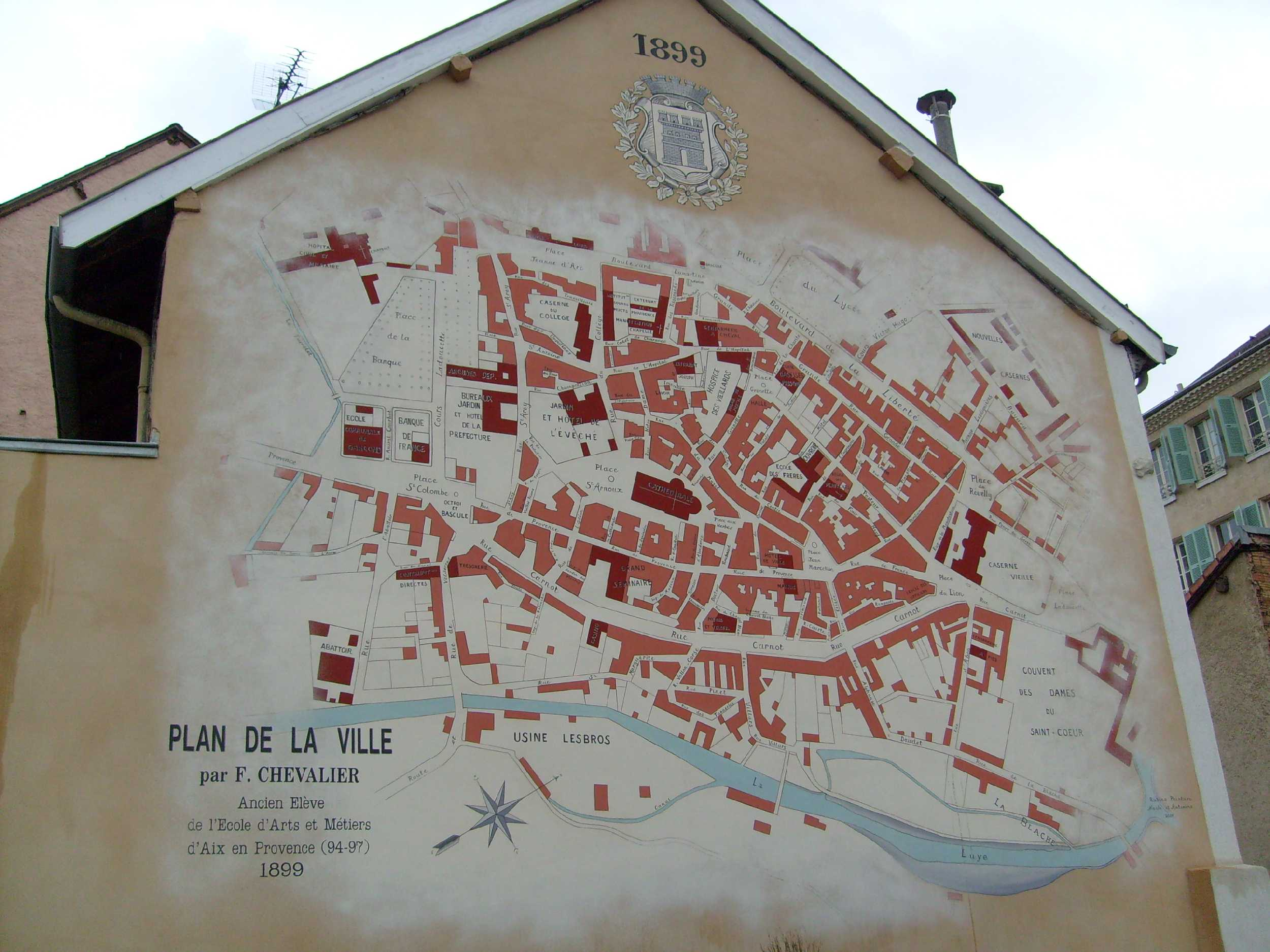 Fresco from a map of Gap in 1899( painted on a wall where Villars street and Pinet street intersect). Gap( Hautes-Alpes, France).